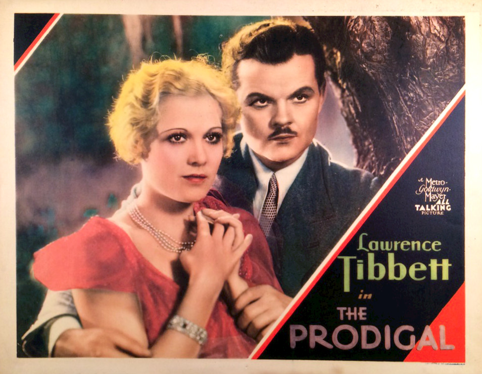 Lobby card for the 1931 film The Prodigal. Renewal searches were done in both film and artwork for the years 1958 and 1959 There were no listings for the film's title or for MGM/Metro etc. in artwork. There's no evidence of current copyright for the film or its related materials.